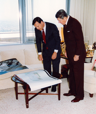 Rep. Chris Cox shows former President Ronald Reagan the blueprints for the new Orange County Federal Courthouse. Rep. Cox authored the 1992 law that named the courthouse after Ronald Reagan-- the first-ever act of Congress naming a building after the former President. (photo date: Aug. 12, 1993)